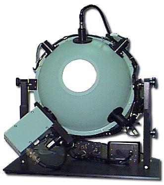 Picture of a commercial integrating sphere